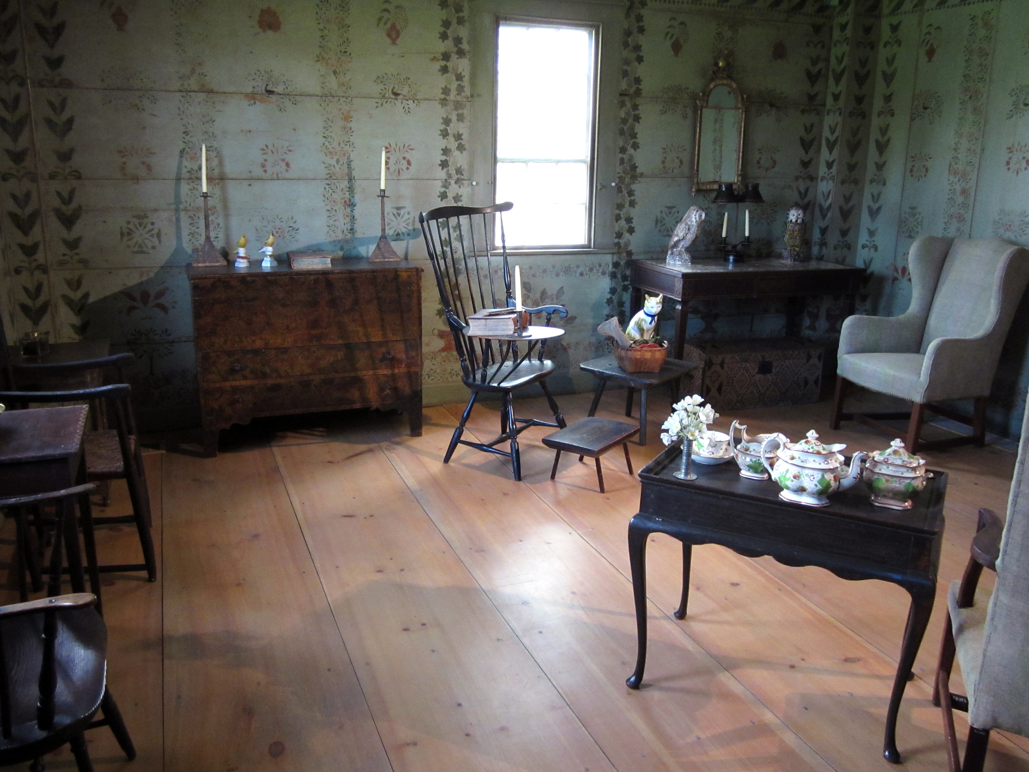 Interior of the Stencil House, an exhibit building that is located at Shelburne Museum in Shelburne, Vermont. Stencil prints can be seen on the walls.